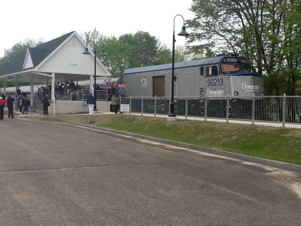 New Amtrak station in Freeport Maine